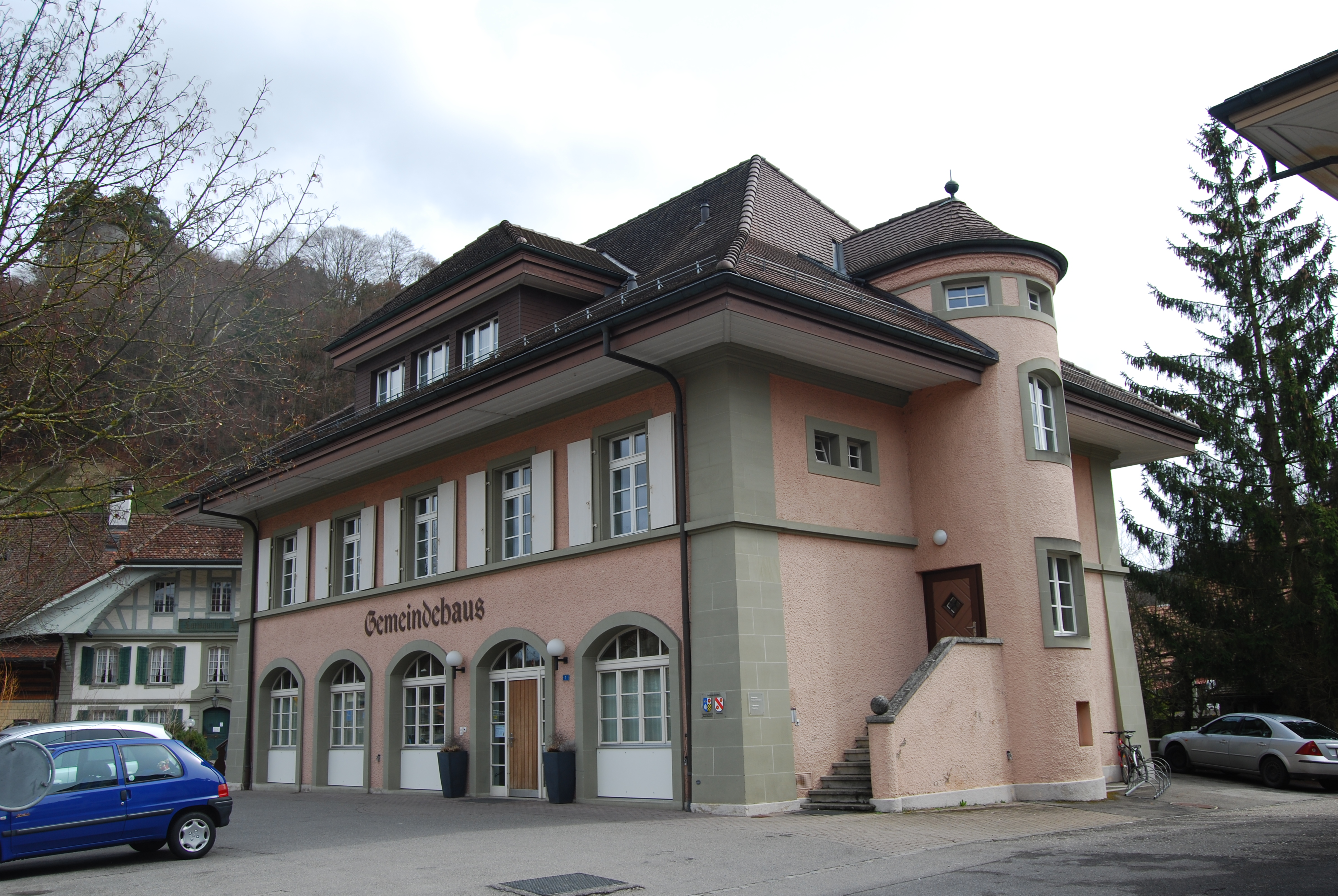 Municipal administration of Krauchthal, canton of Bern, SwitzerlandEsperanto: Komunuma domo de Krauchthal, Kantono Berno, Svislando